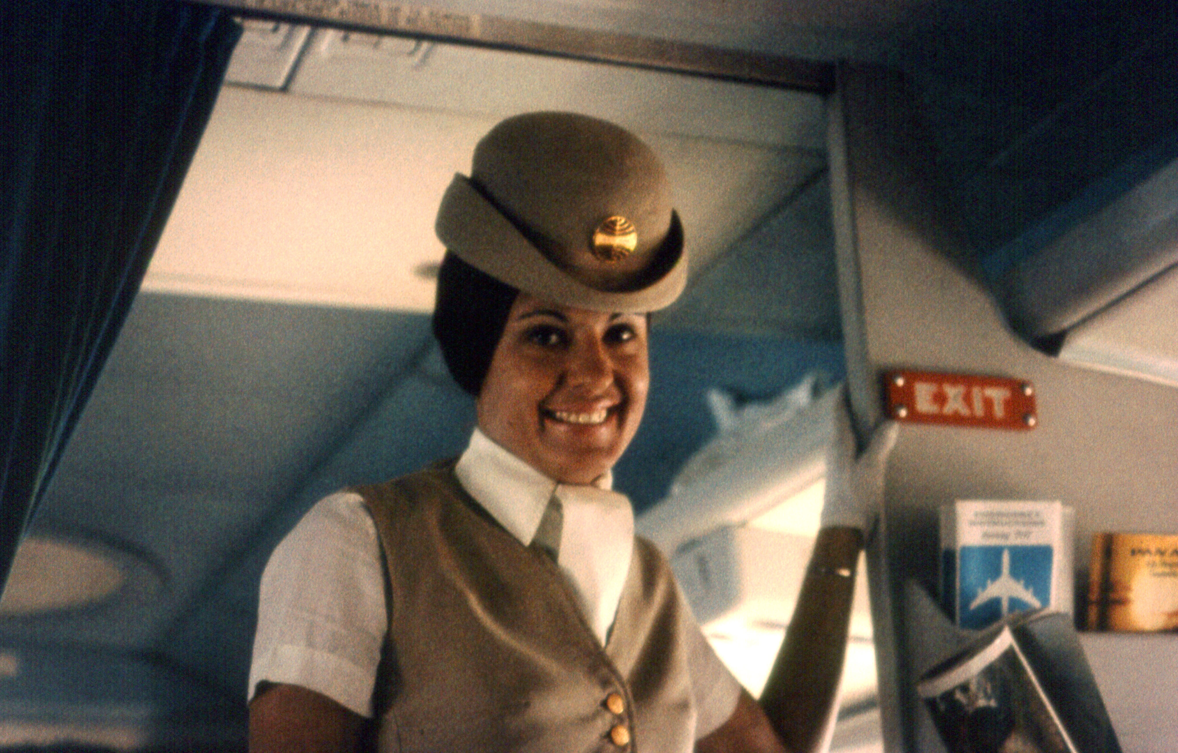 Pan-Am flight attendant on airplane. Photo taken during the summer of 1970